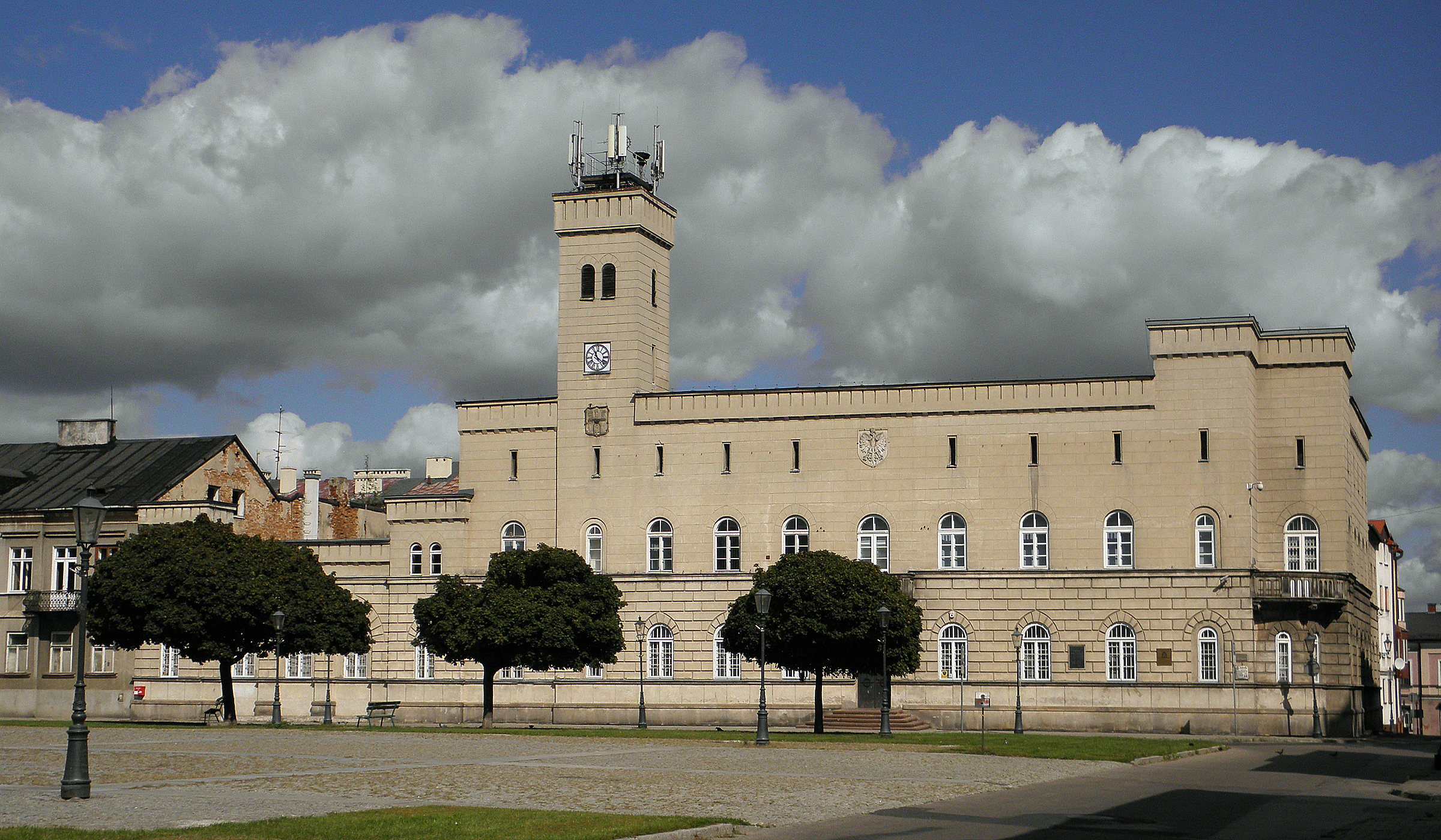 Town hall building in Radom, Poland